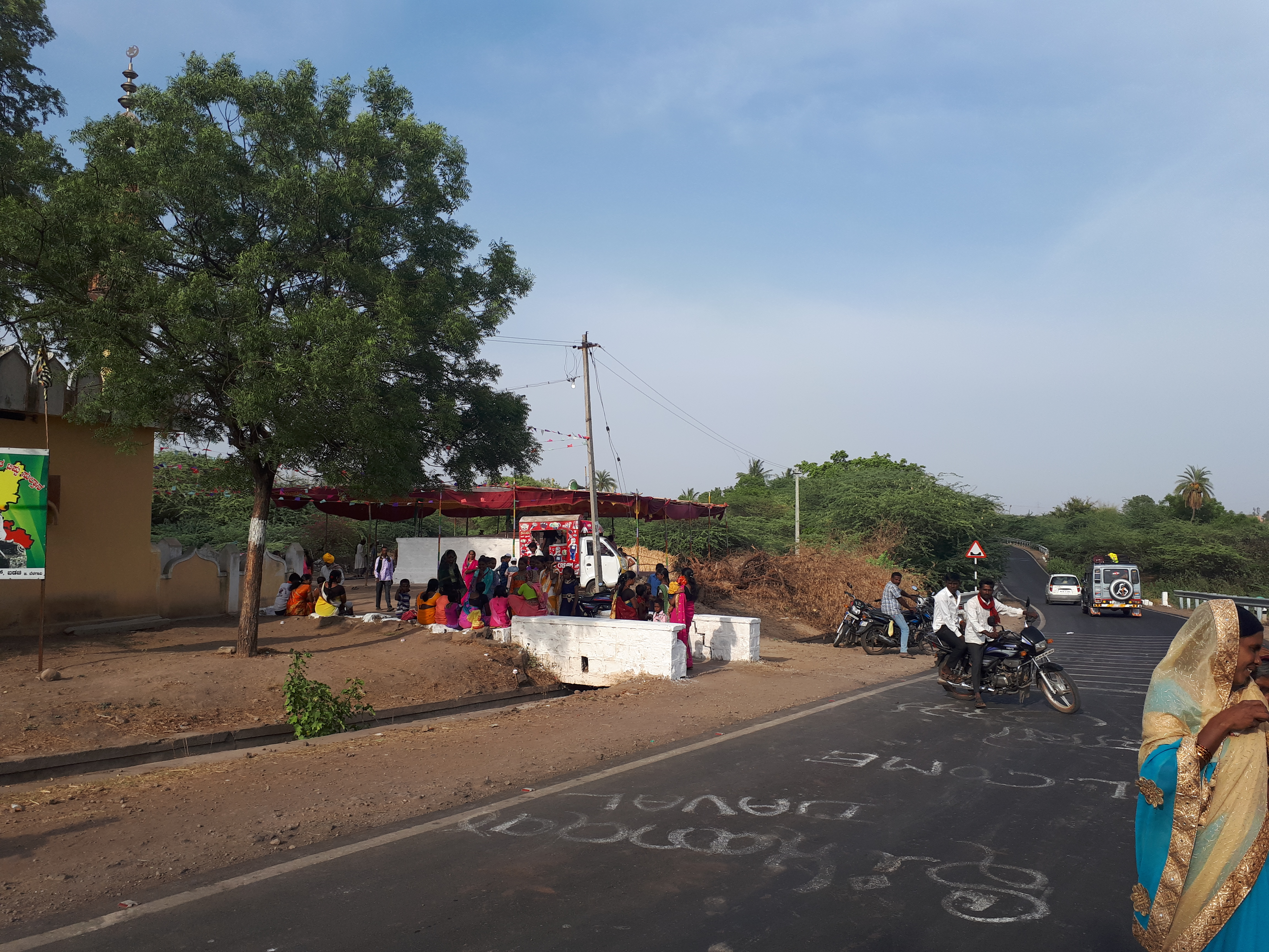 Maashahibi Dargaa